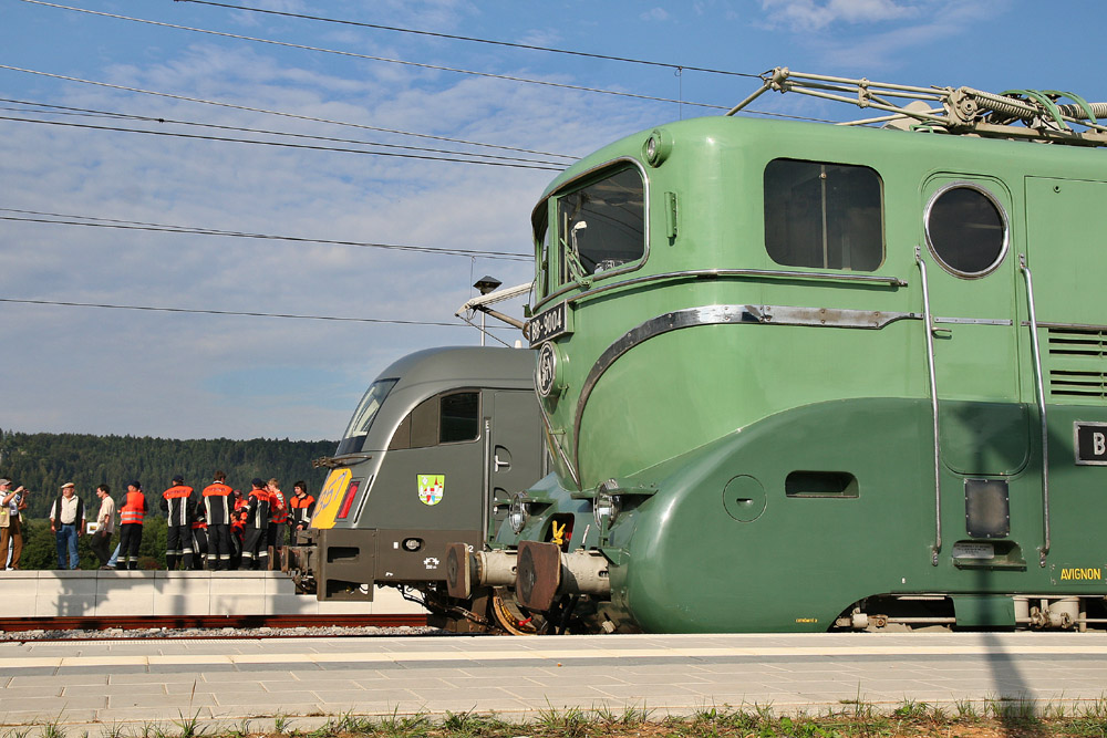 The BB 9004 locomotive (in front) and 1216 050 (in the back), at the railway station of Kinding. At a top speed of 331 kph, the BB 9004 set a new world speed record for rail vehicles. That record was broken by 1216 050 on September 2nd, 2006, at a speed of 357 kph.